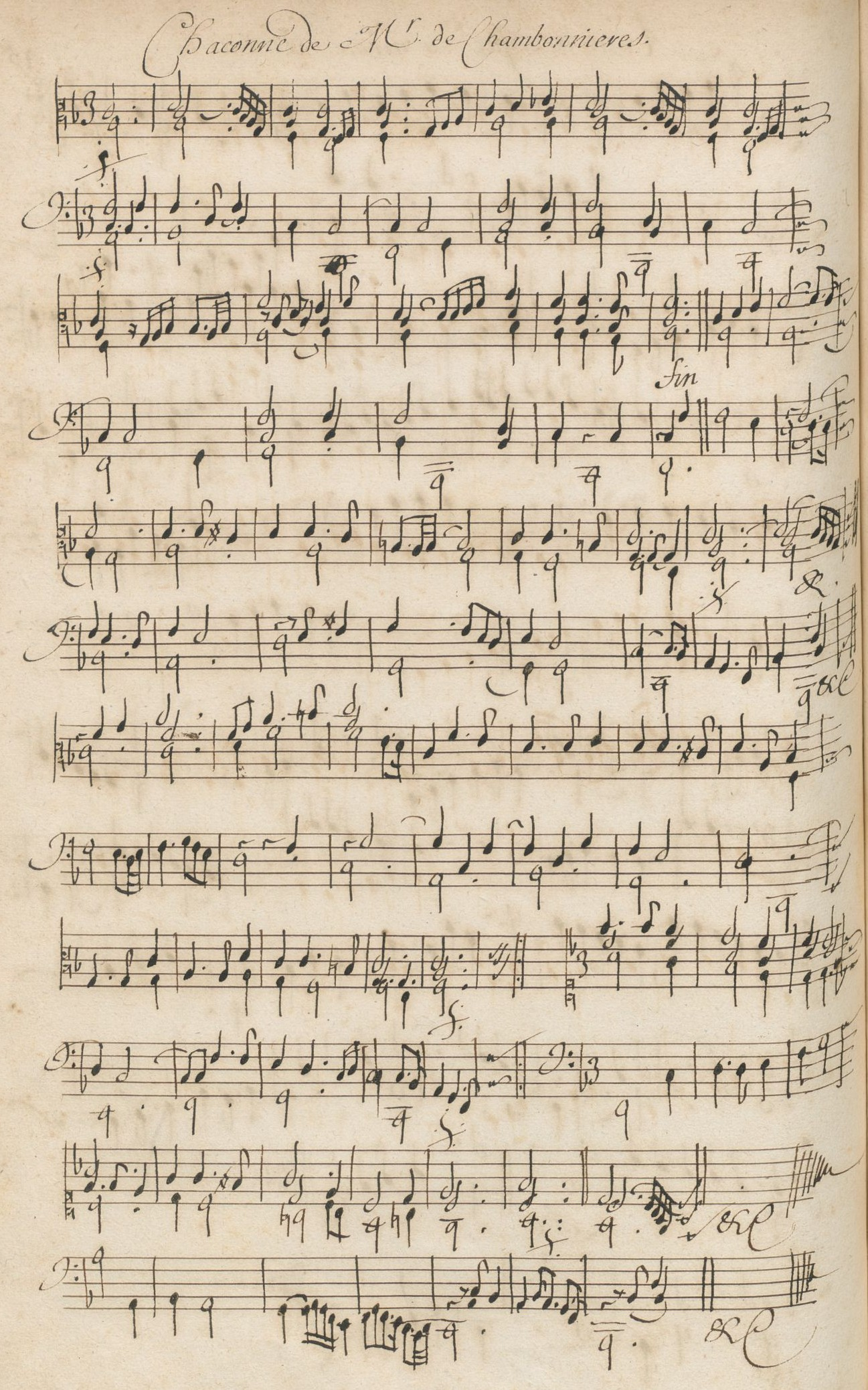 Chaconne for harpsichord, by Jacques Champion de Chambonnières, No. 116 in the Brunold/Tessier edition. This is the short version from the Bauyn manuscript, containing only couplets 1 to 3, and omitting couplets 4 and 5.